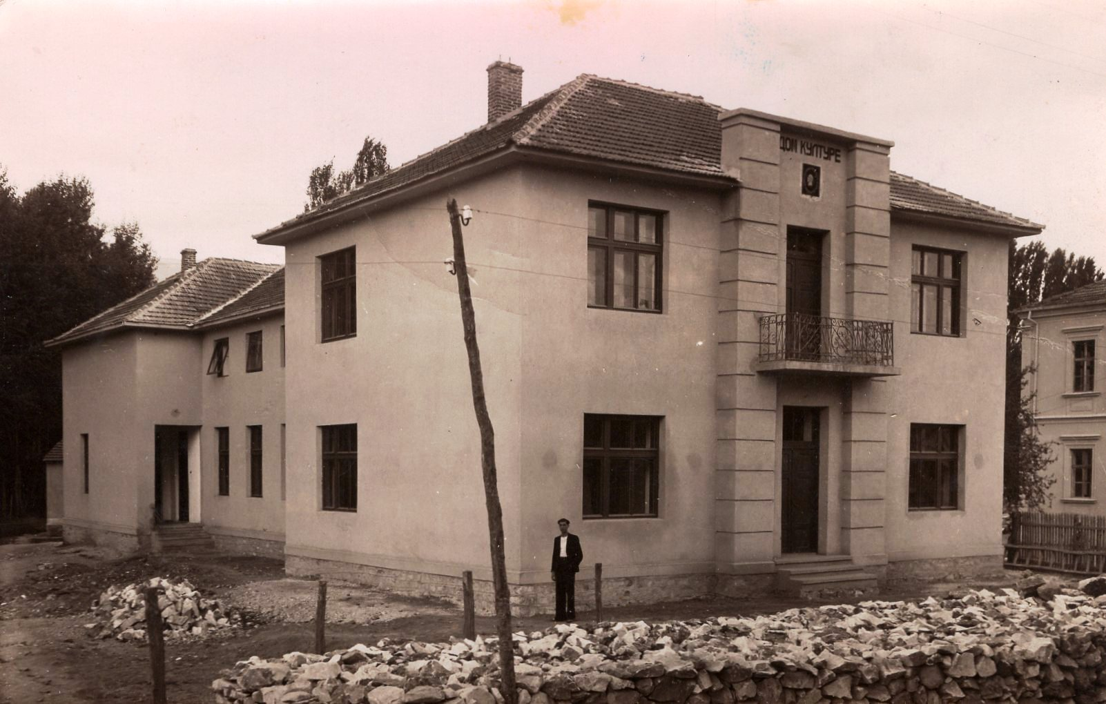 Postcard of Gostivar, 1930's This media file is produced by Wikipedian in Residence in Category:Wikipedian in Residence at DARM in 2016.